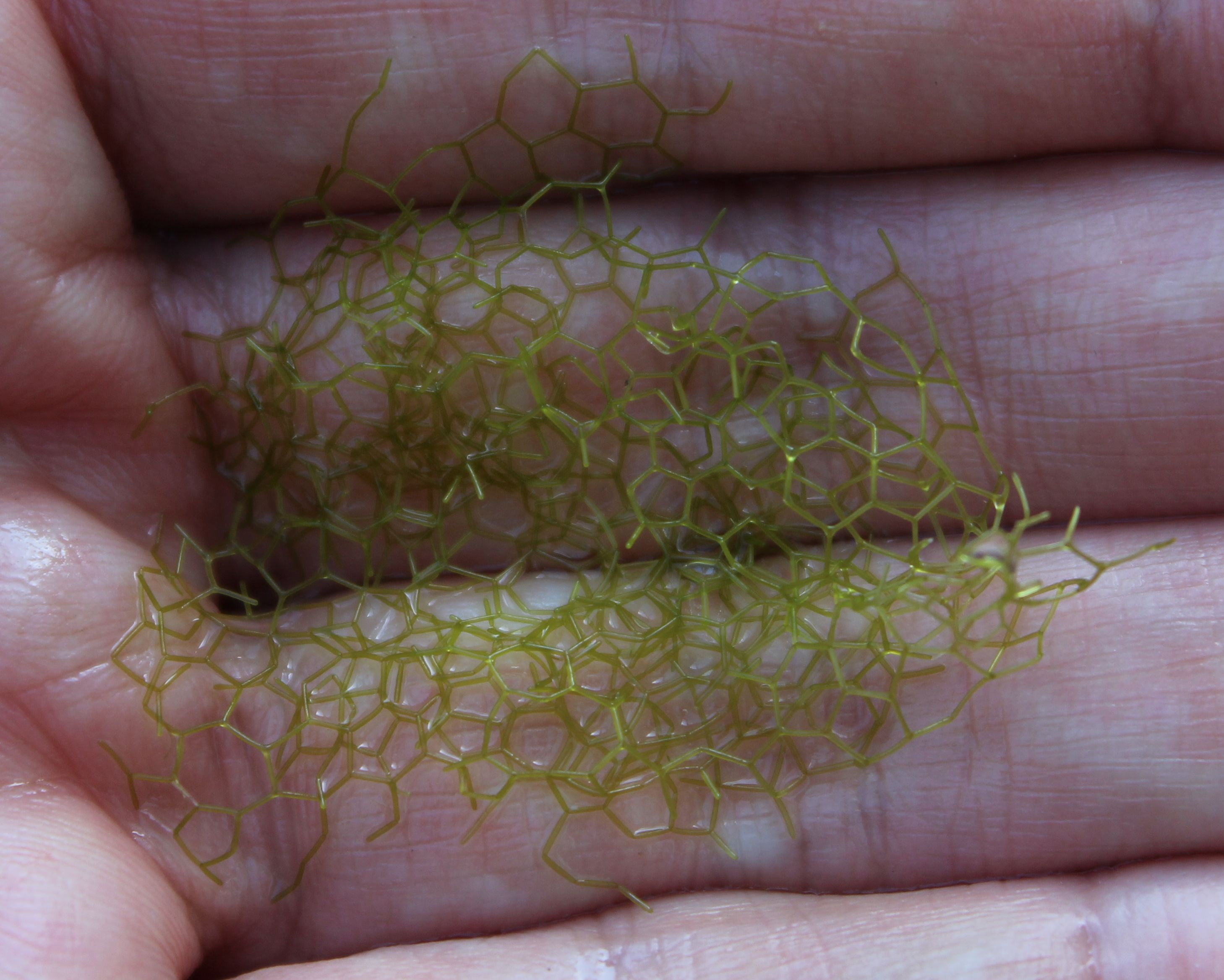 Hydrodictyon reticulatum on a hand. Found in water bucket with several water plants in a garden in Munich, Germany